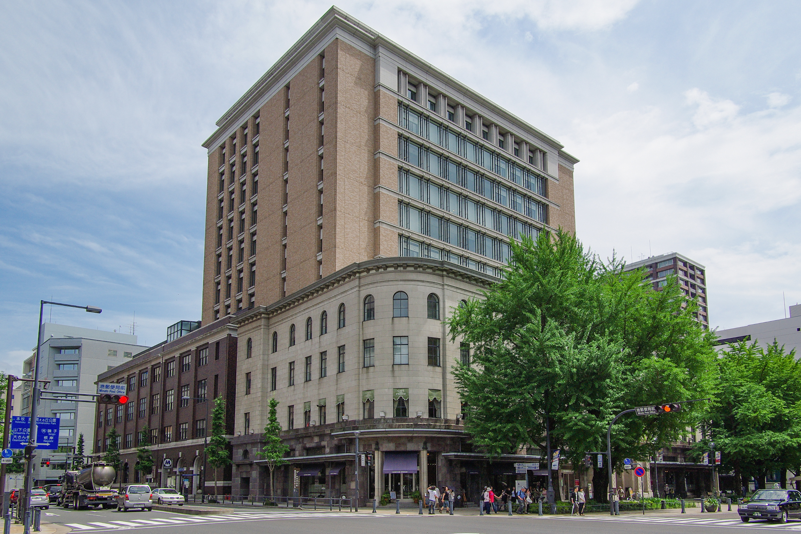 Photograph of Yokohama Media and Communications Center, including Japan Newspaper Museum (NEWSPARK) and Broadcast Library, in Naka-ku, Yokohama, Kanagawa Prefecture, Japan.